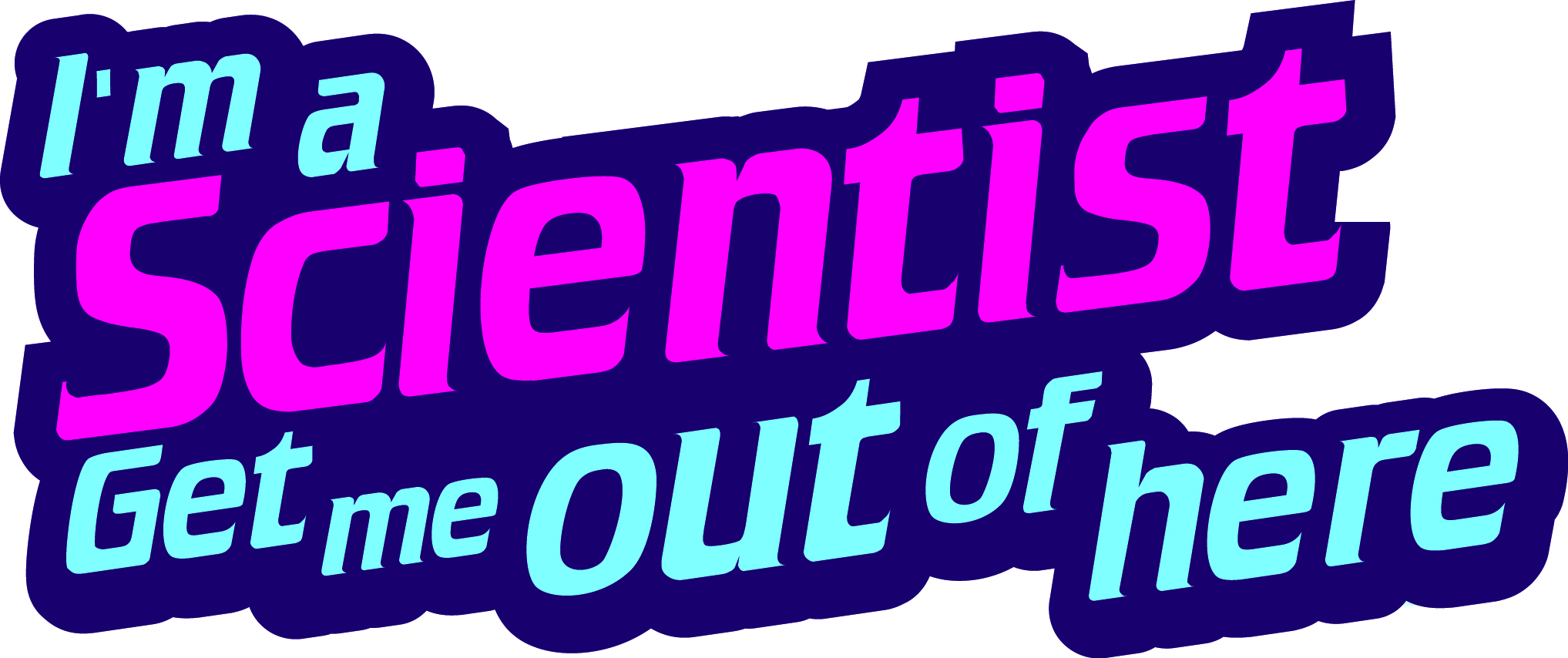 Logo for online series "I'm a Scientist, Get me out of here!". This particular instance is from Ireland, but the UK version seems identical, and other country versions are similar.